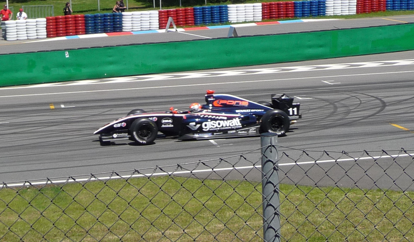 Federico Leo, Formula Renault 3.5 Series, 2nd race, 2010 Brno World Series by Renault -10-5-3-2◄►+2+3+5+10